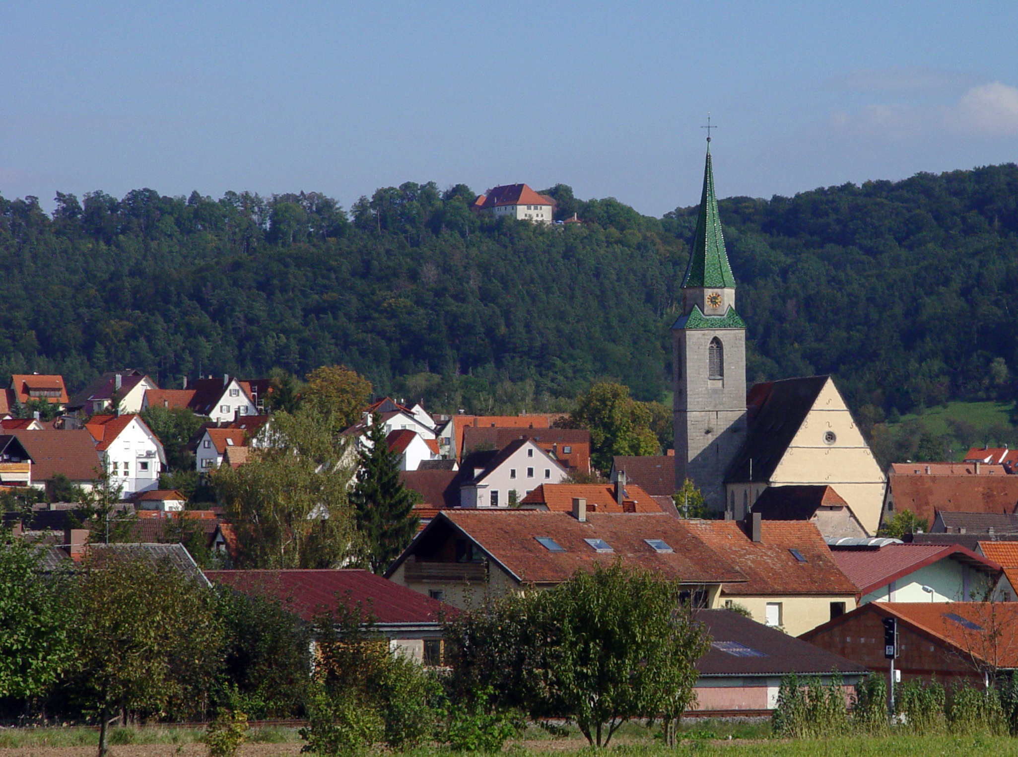 Germany. Village Entringen with church St. Michael and the castle Hohenentringen in the back.